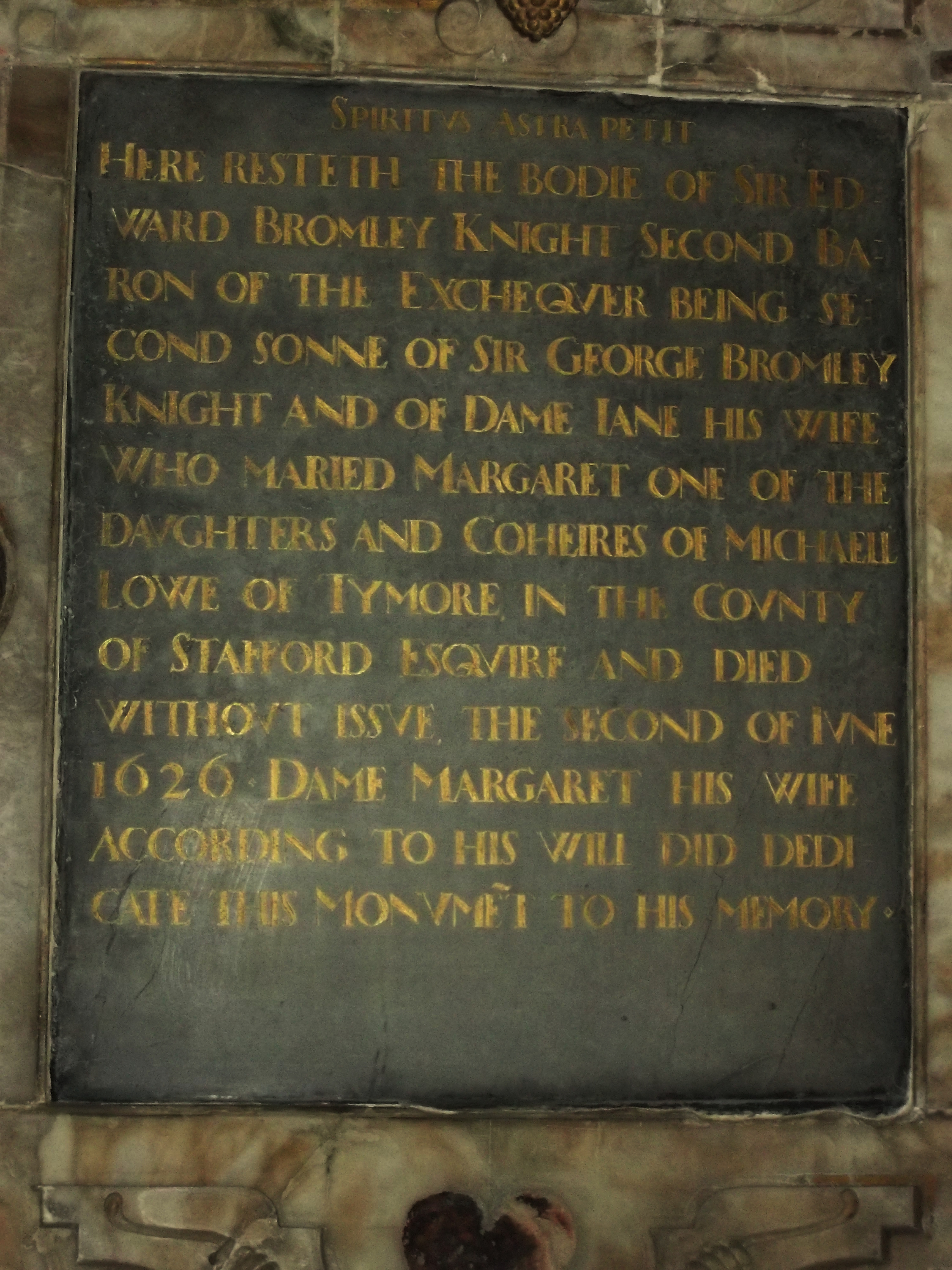 St Peter the Apostle, Worfield, Shropshire. Epitaph of Edward Bromley, Exchequer Baron, a judge of the 16th and 17th centuries.